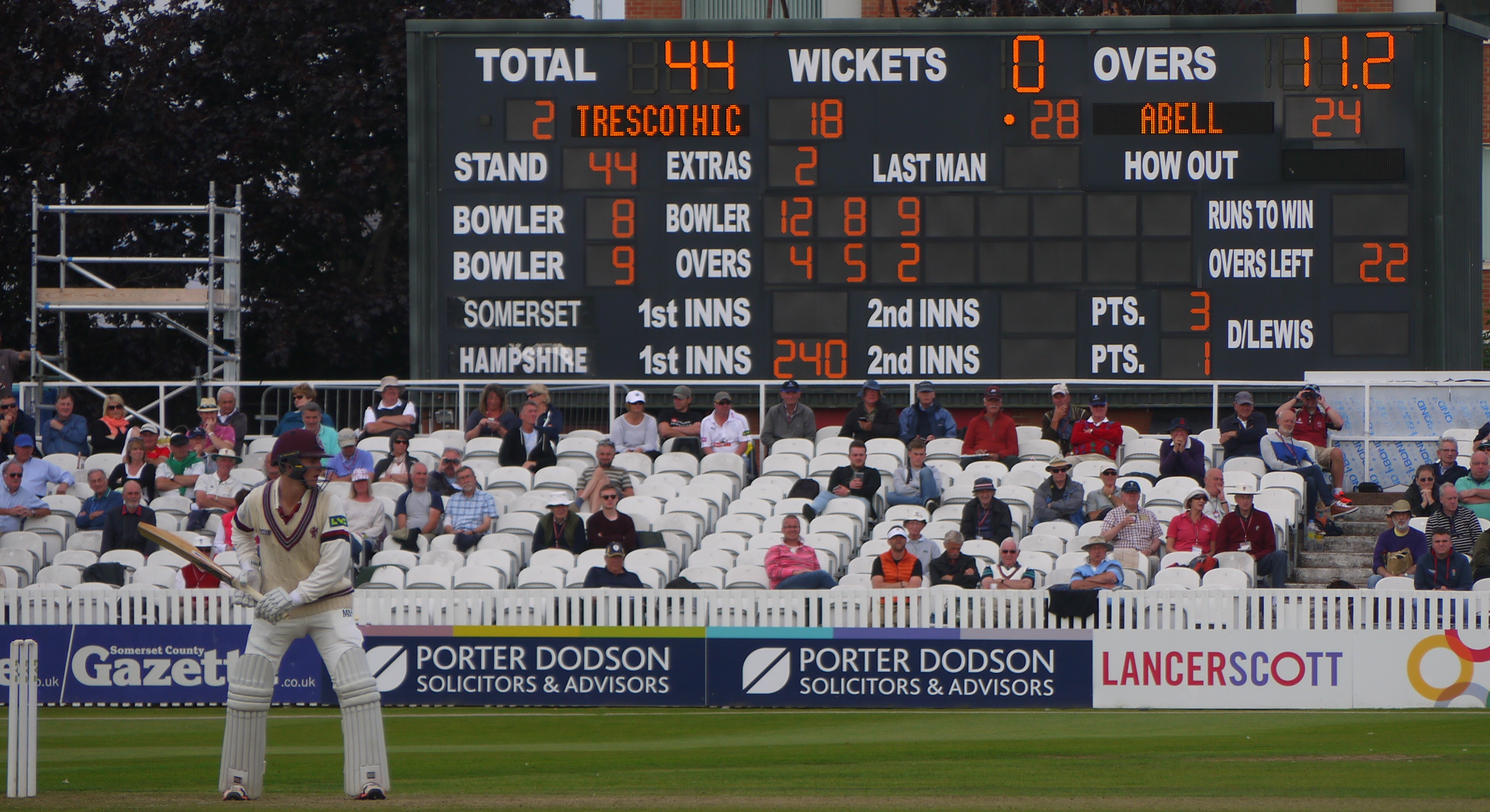 Tom Abell batting for Somerset against Hampshire in September 2015.